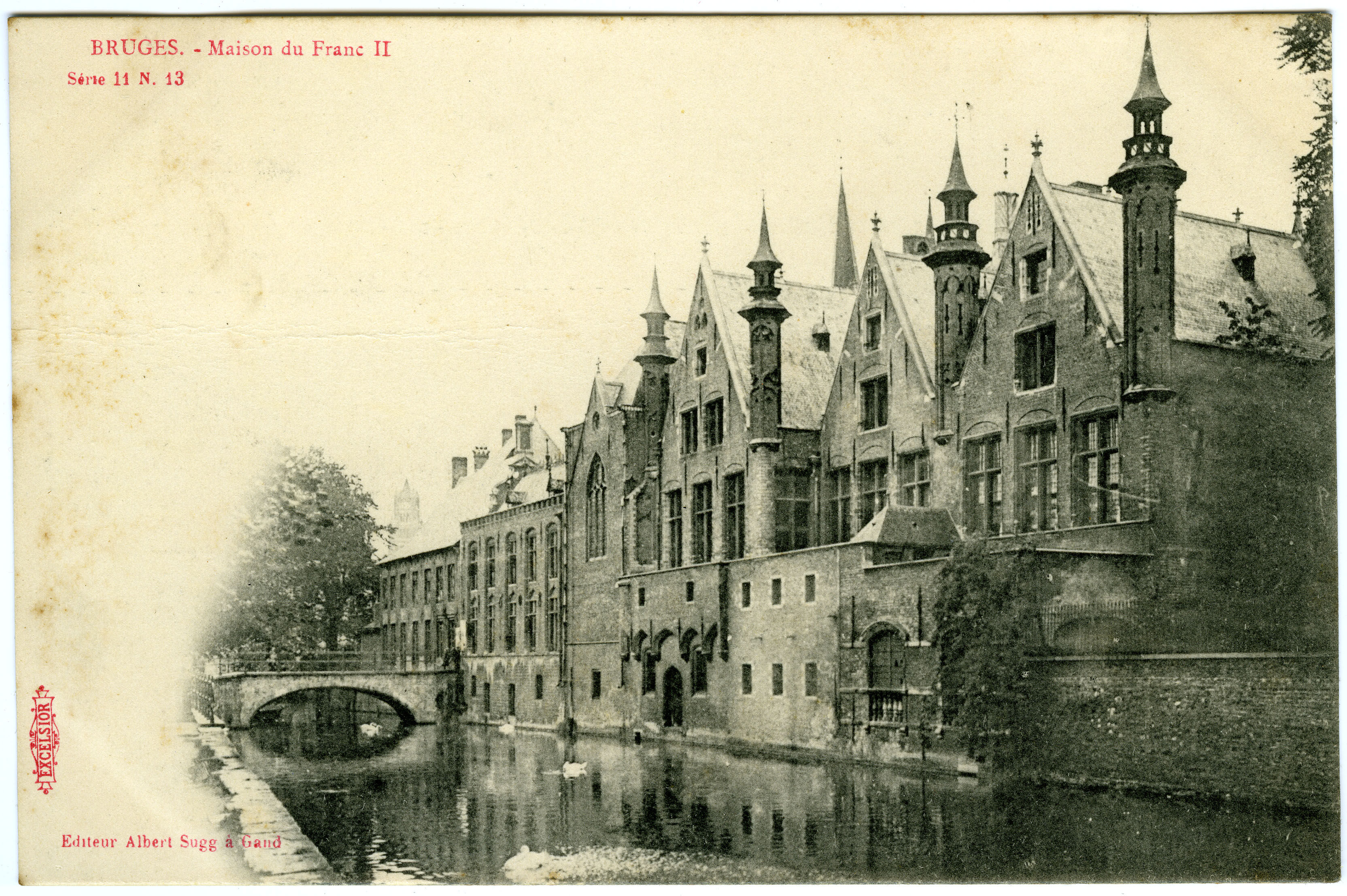 Postcard of Bruges, Belgium showing the 'Maison du Franc II' (Excelsior Series 11, No. 13, Albert Sugg a Gand; ca. 1905). Apparently this is also known as the 'Brugse Vrije'. For more information see Vrije#The_Manor the English Wikpedia article.